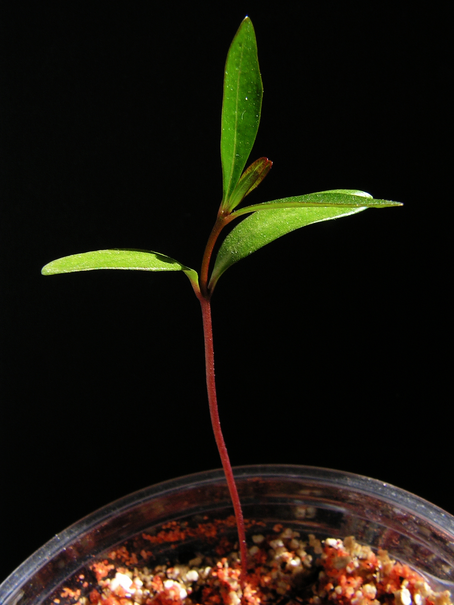 Seedling of Nerium oleander. The age of the plant is 2 months, its height is appr. 9 cm.